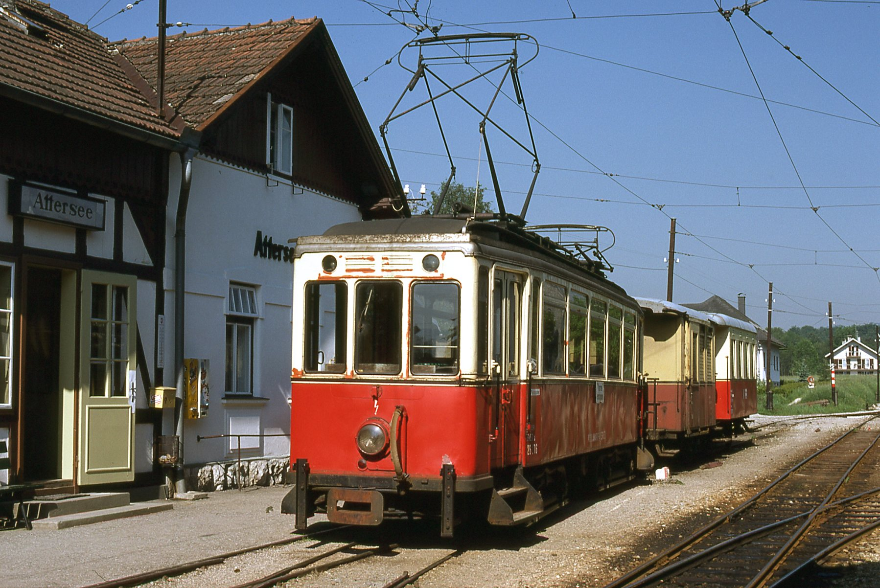 Train of the Attergaubahn at Attersee station.